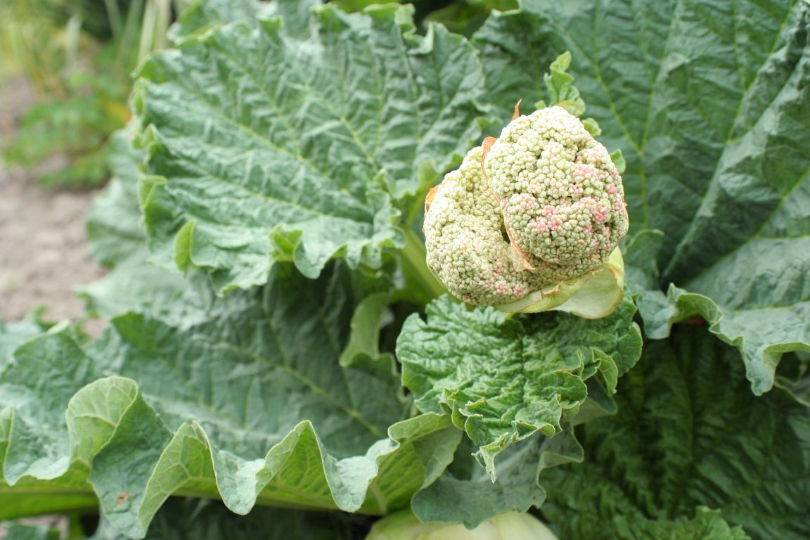 The flower of a Rhubarb. Four sequential photos: Image:Rhubarb-flower-1.jpg Image:Rhubarb-flower-2.jpg (this one) Image:Rhubarb-flower-3.jpg Image:Rhubarb-flower-4.jpg Photo of may 2006.